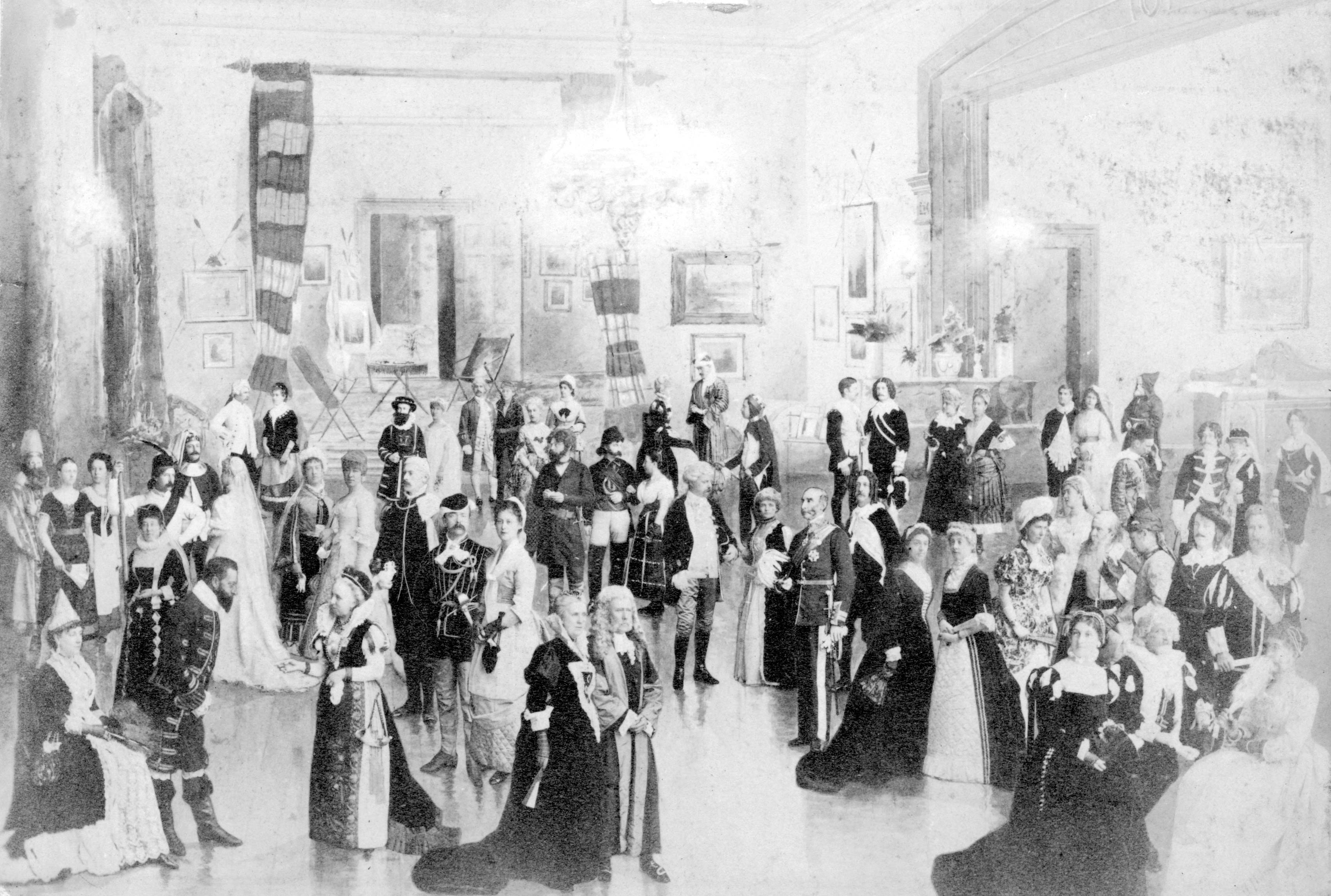 Fancy-dress Ball given by Gen. Sir Patrick L. MacDougall, K.C.M.G., Commmander of H.M. Forces, at 'Maplewood', Northwest Arm, Halifax, Nova Scotia, Canada, sometime between 1878 & 1883. Composite photo by W. Notman. 'Maplewood' was a magnificent 8-acre property on the North West Arm; the residence was described in The Citizen (Halifax), 4 April 1872, as "large and commodious containing fourteen rooms. Besides kitchens, cellars, bathroom....stables, barns, root house, fowl house, [and] icehouse, there is also a small conservatory and gardener's dwelling". The property, leased in the summers, 1878-83, to General Sir Patrick MacDougall, Commander-in-Chief of Her Majesty's Forces in Canada, was ideally suited for the extensive entertaining which went along with Sir Patrick's position as military chief and a leader of Halifax society.